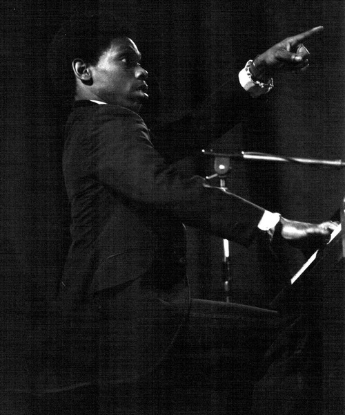 Lucky Peterson 17 years old in France